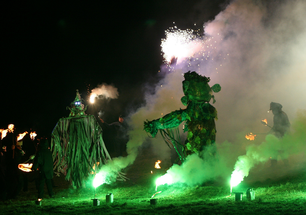 Original caption: Jack Frost Battles with The Green Man at the Imbolc festival in 2008. Stendedge visitor center,Marsden, Huddersfield.